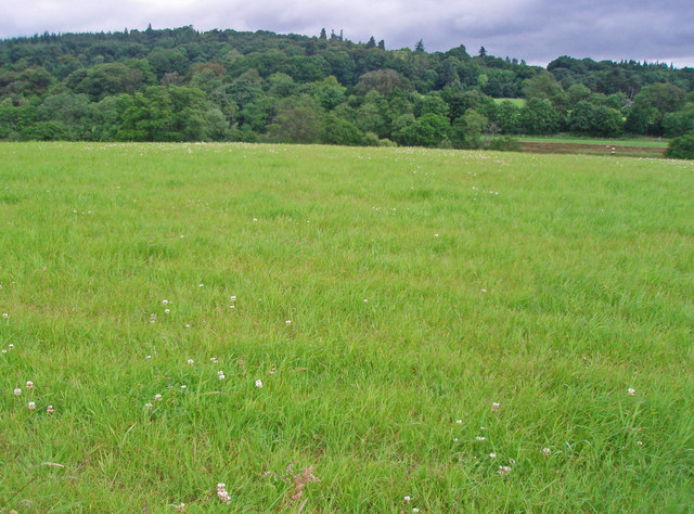 Meadow at the Balbridie archaeological site The foreground meadow is on the south Deeside, whereas the background woodland is across the River Dee. The Balbridie archaeological site was first identified by cropmarks from aerial photography. Excavation revealed the prior use as a Neolithic timber hall, one of the earliest known such sites in this region of Scotland.